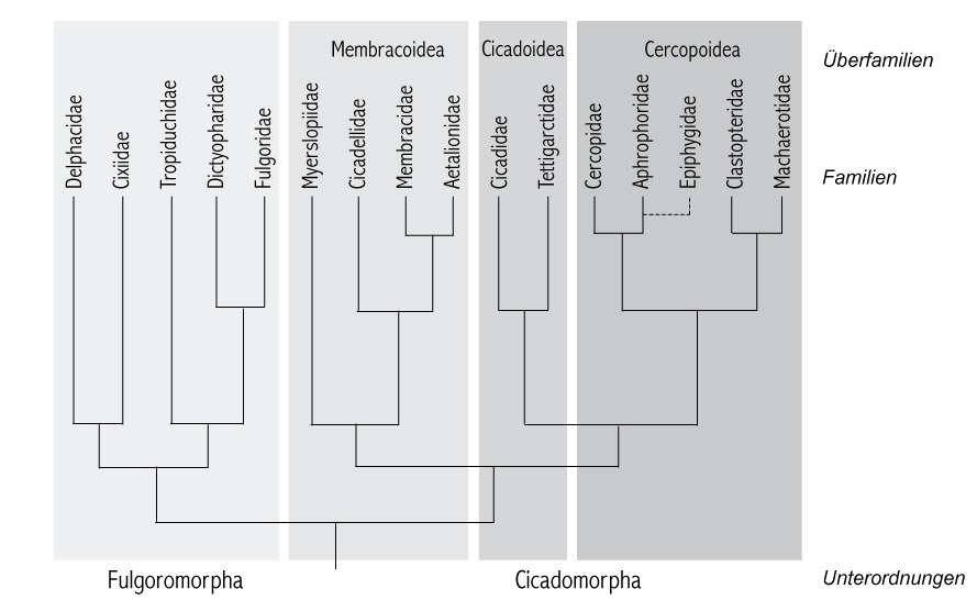 Phylogenetic relationships of Cicadomorpha and Fulgoromorpha (after Jason R. Cryan, 2005)